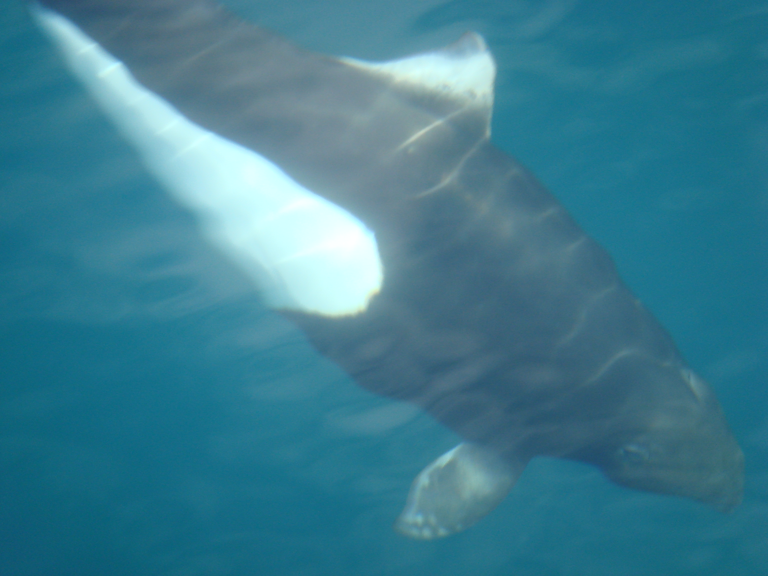 A wild Dall's porpoise poses for her Wikipedia photo in the Shelikoff Strait off the Kodiak Archipelago.